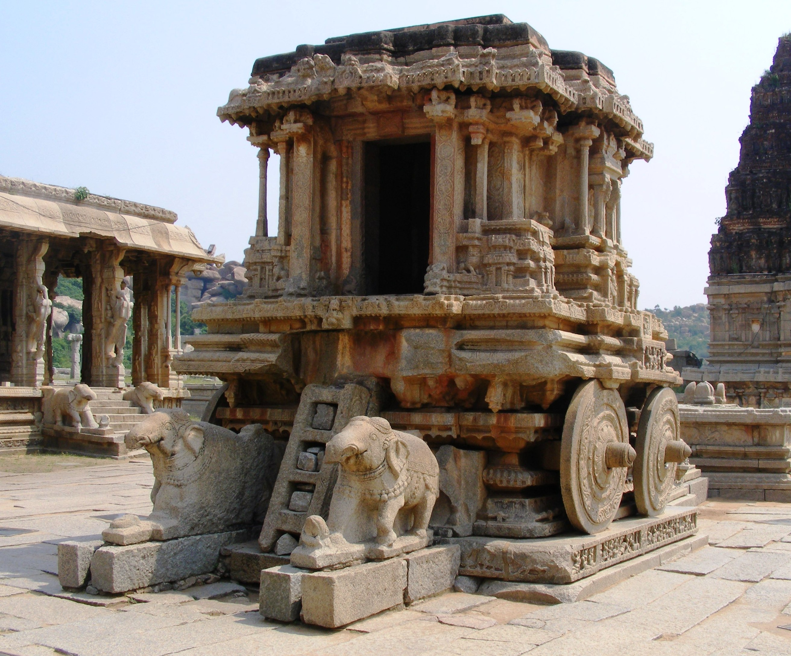 Stone Charriot at Hampi.